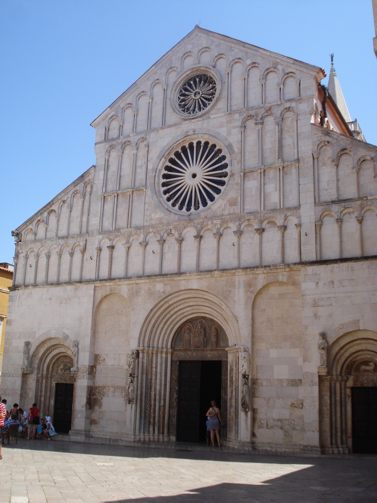 Saint Anastasia's Cathedral in Zadar, Croatia - entrance